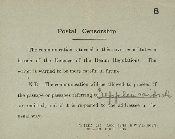 Notice to mail sender warning that content referring to Zeppelin raids has been censored under the Defence of the Realm Act 1914.